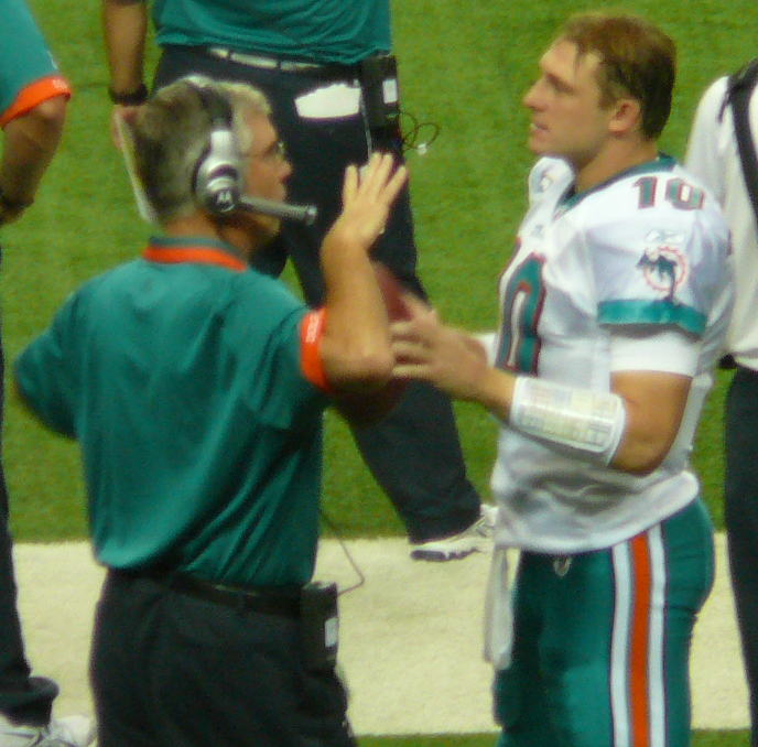 If used somewhere other than Wikipedia, Nelson, by name.